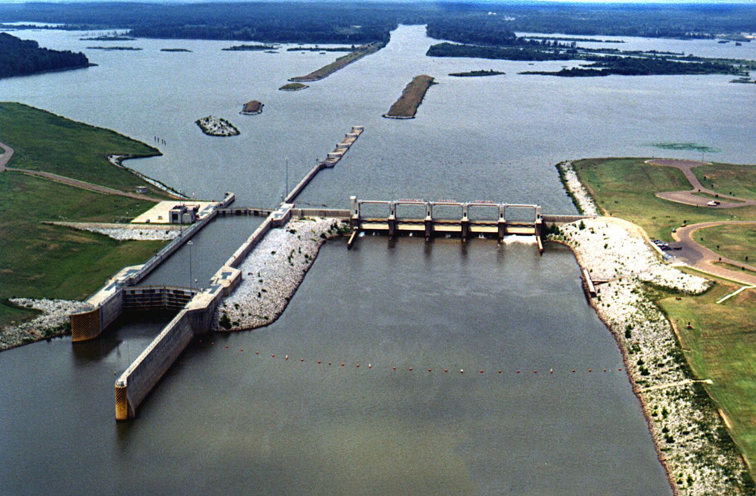 Aerial view of John C. Stennis Lock and Dam, formerly named Columbus Lock and Dam, on the Tombigbee River near Columbus, Lowndes County, Mississippi, USA. The dam impounds Columbus Lake. The lock and river are part of the Tennessee-Tombigbee Waterway. The U.S. Army Corps of Engineers maintains the lock and waterway for barge navigation. Stennis Lock and Dam are one of a series of ten locks and dams on the waterway. View is upriver to the north-northwest. Coordinates: 33°31′5.31″N 88°29′20.34″W / 33.5181417°N 88.4889833°W